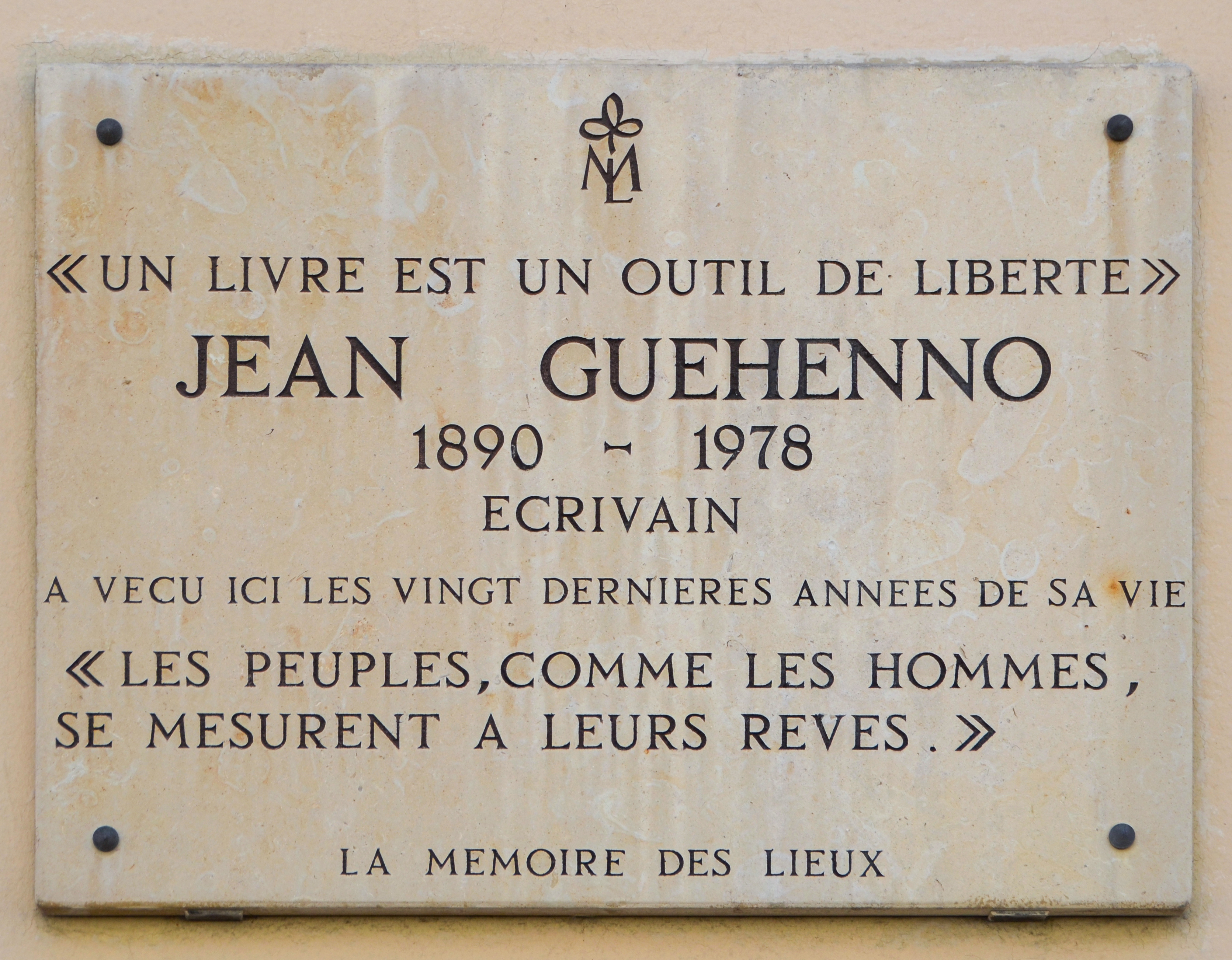 Read about this French writer here